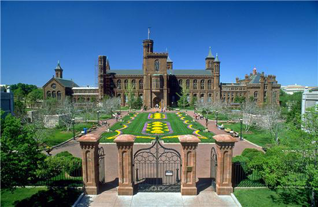 The Smithsonian Institution Building or "Castle's" south entrance, viewed from Independence Avenue. The Enid A. Haupt Garden welcomes visitors through the gates, 1990, Local Number: 90-6258.